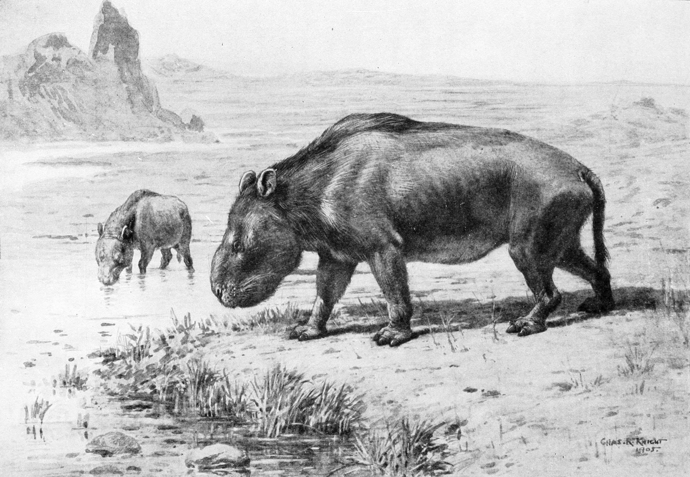 Life restoration of Nesodon imbricatus from W.B. Scott's "A History of Land Mammals in the Western Hemisphere." New York: The Macmillan Company.